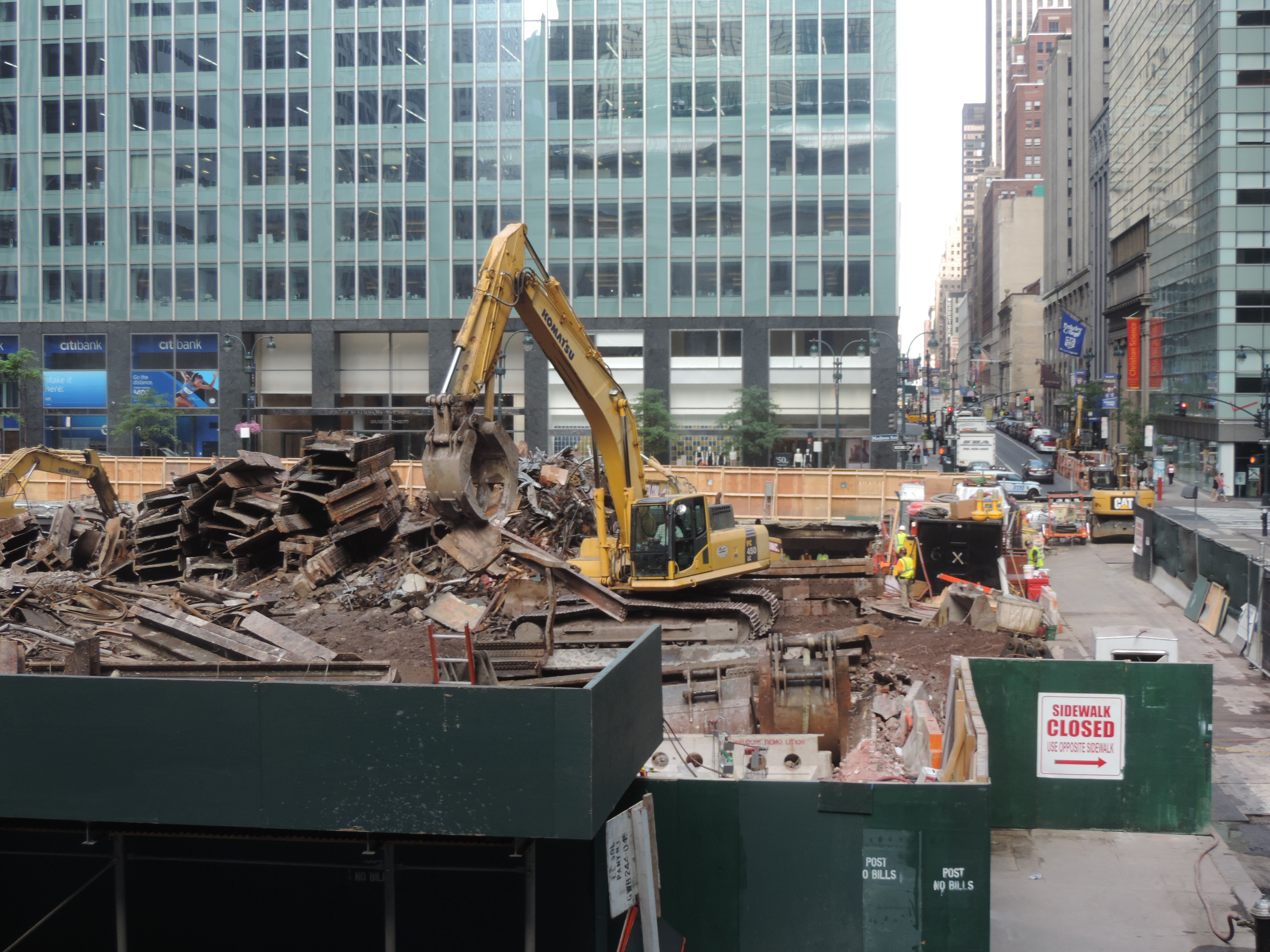 Looking west from viaduct at north side of demolition site between 42 and 43 Streets